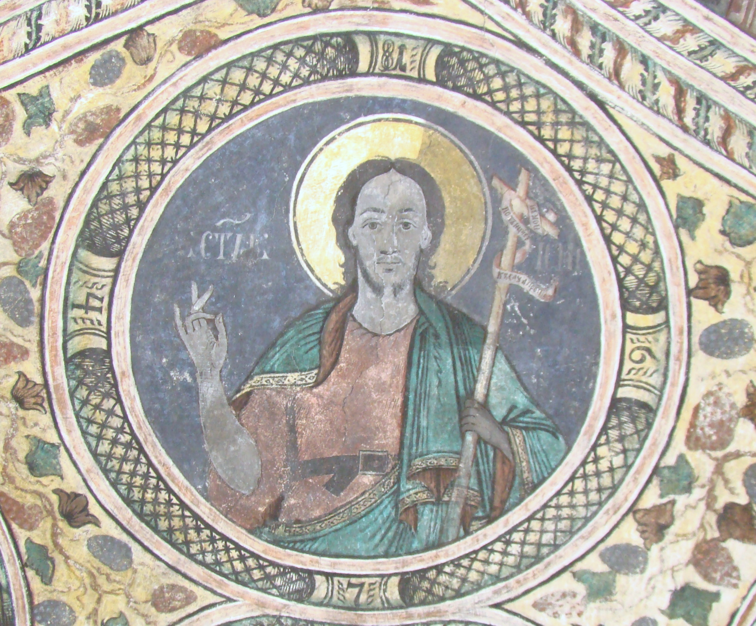 The church of the Descent of the Holy Spirit in Micești, Cluj county, Romania